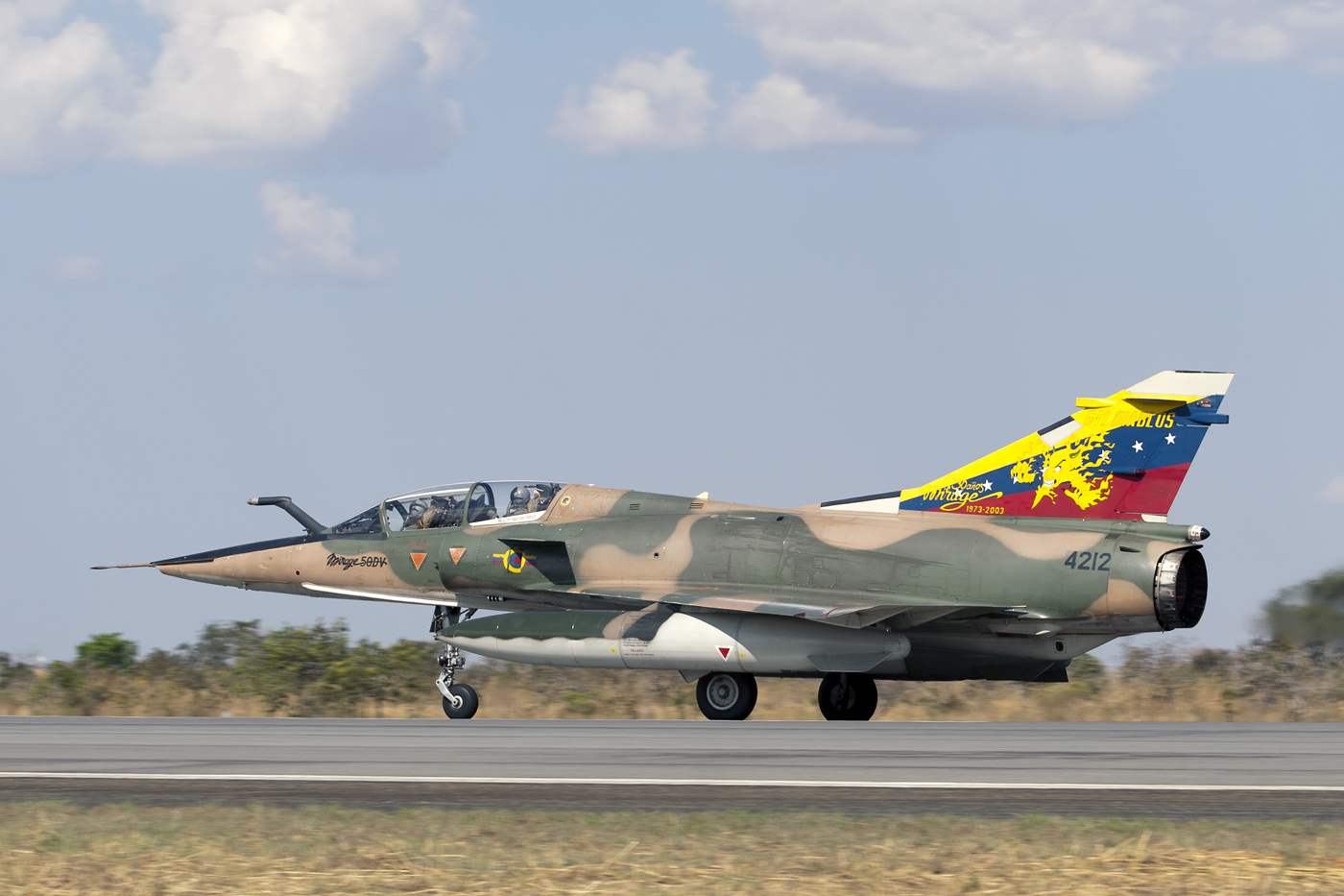 'G11 Diablos' and '30 years Mirage' in the Forca Aerea Venezolana. G11 means Grupo Aéreo de Caza 11, based at Capitan Manuel Rios Guarico AB. Three Mirages attended the international exercise Cruzex at Anápolis airbase, Brazil, in August 2006. 4212 was donated to Ecuador in 2009, the Grupo now has Sukhoi Su-30 Flankers.